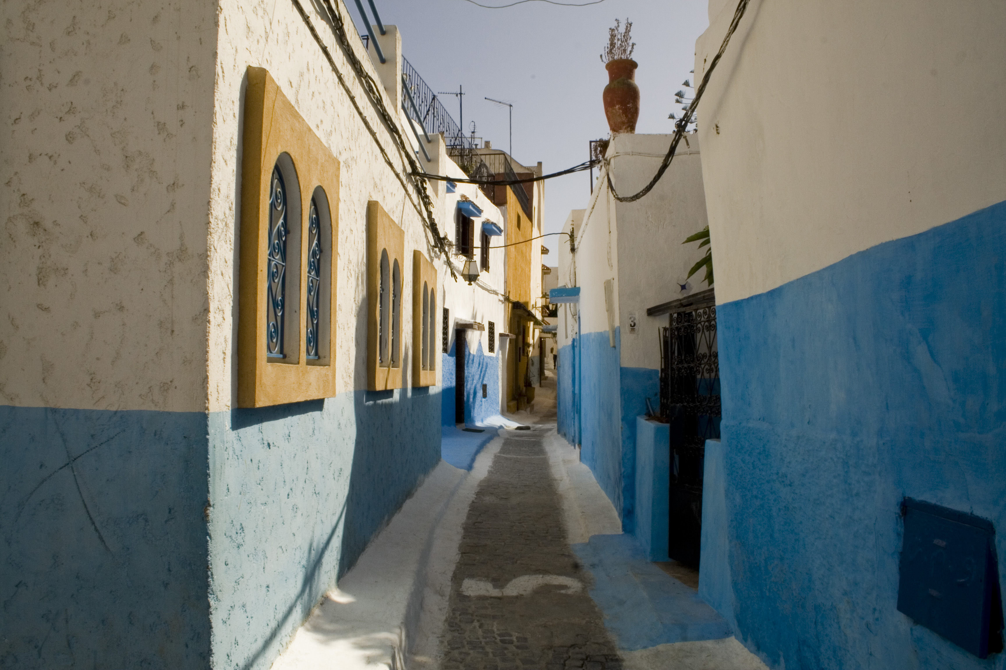 Typical street in the medina of Rabat, Morocco